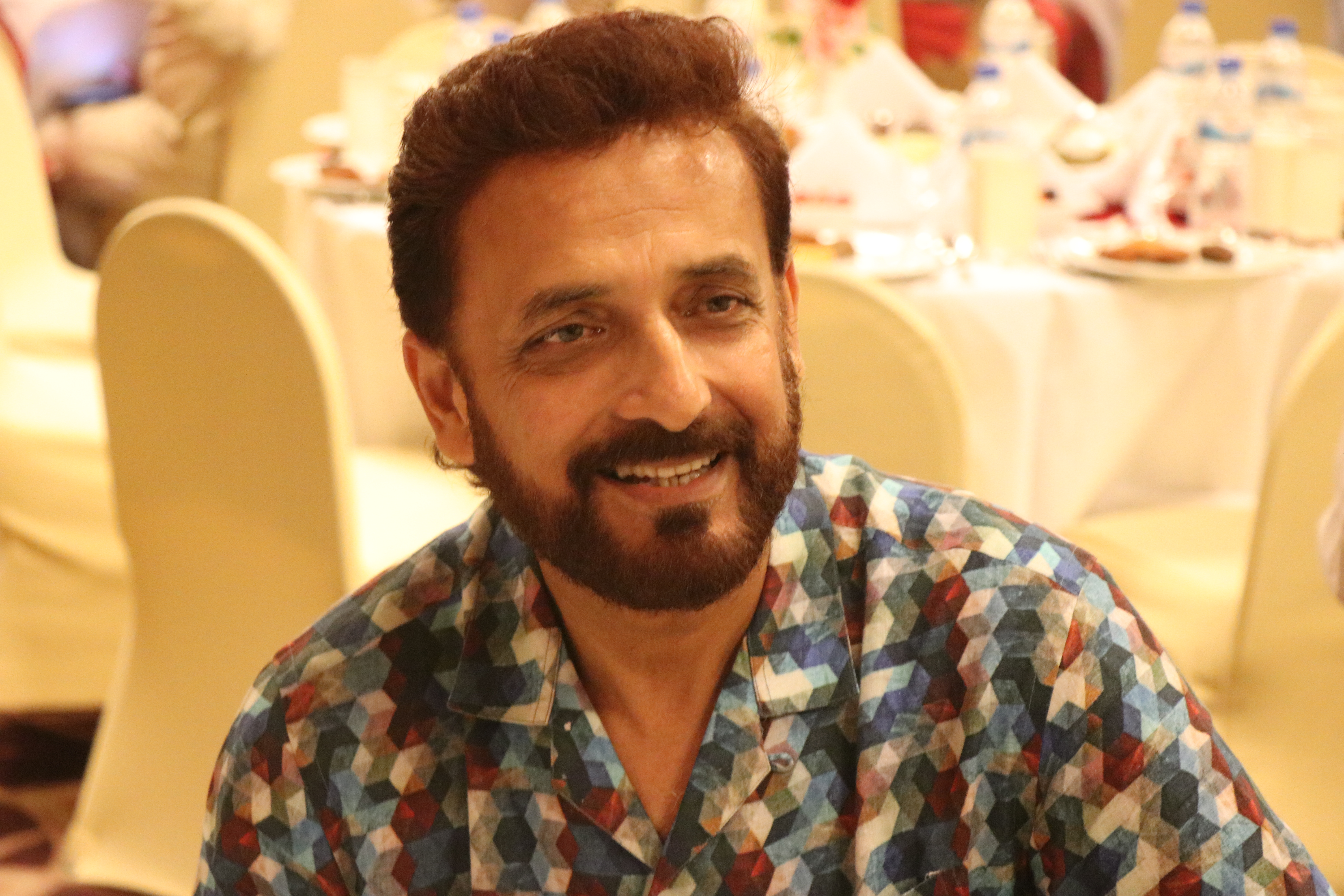 Athar Ali Khan, The former cricketer of Bangladesh National Cricket team and commentator